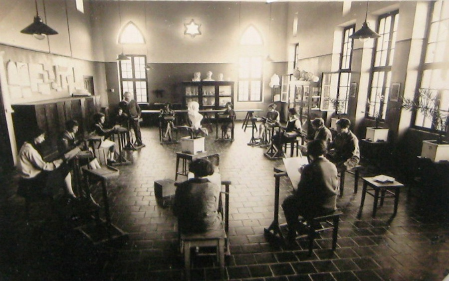 Technion History Archives